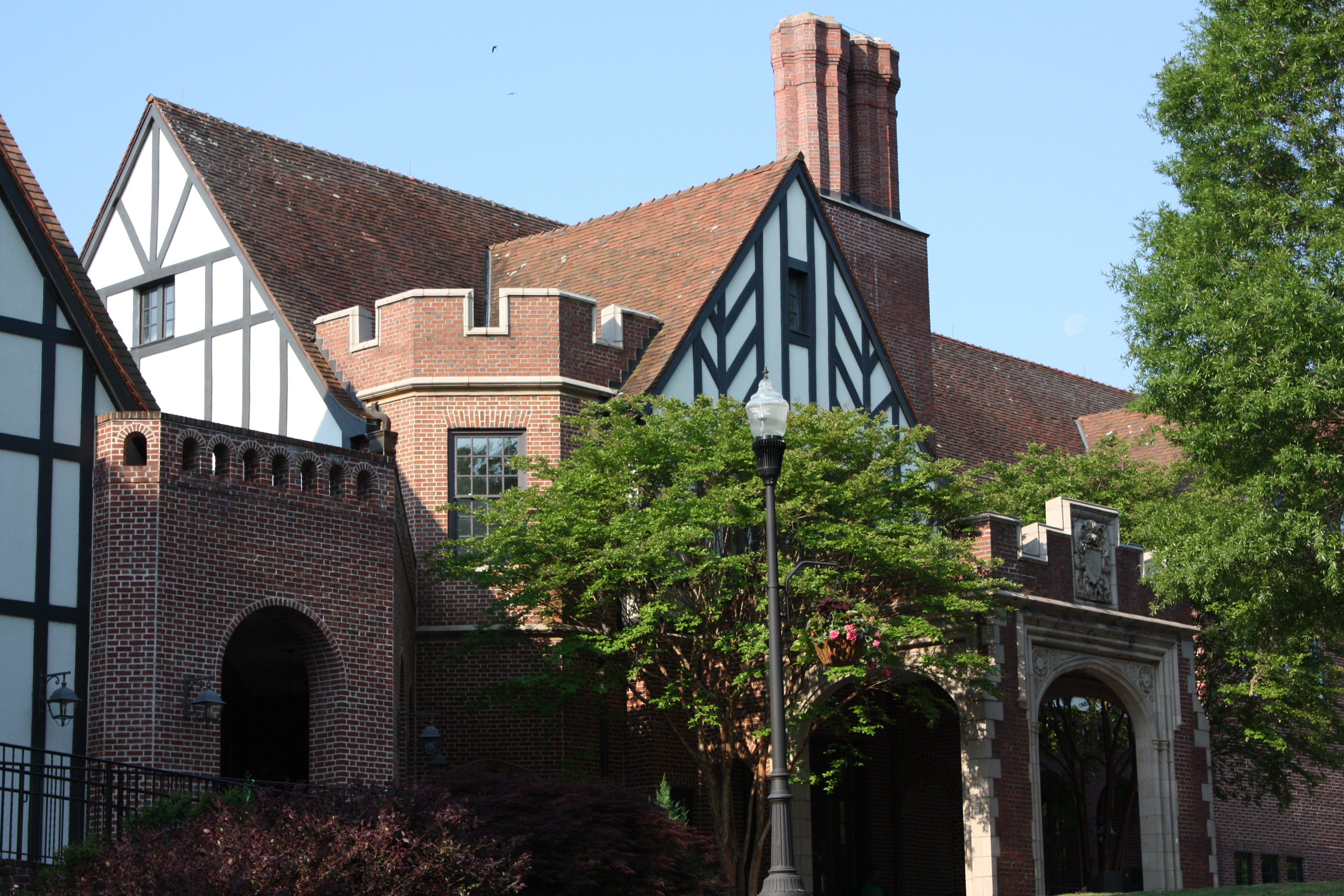 Front of the Clubhouse at East Lake Golf Club, Atlanta, GA, home course of Bobby Jones.